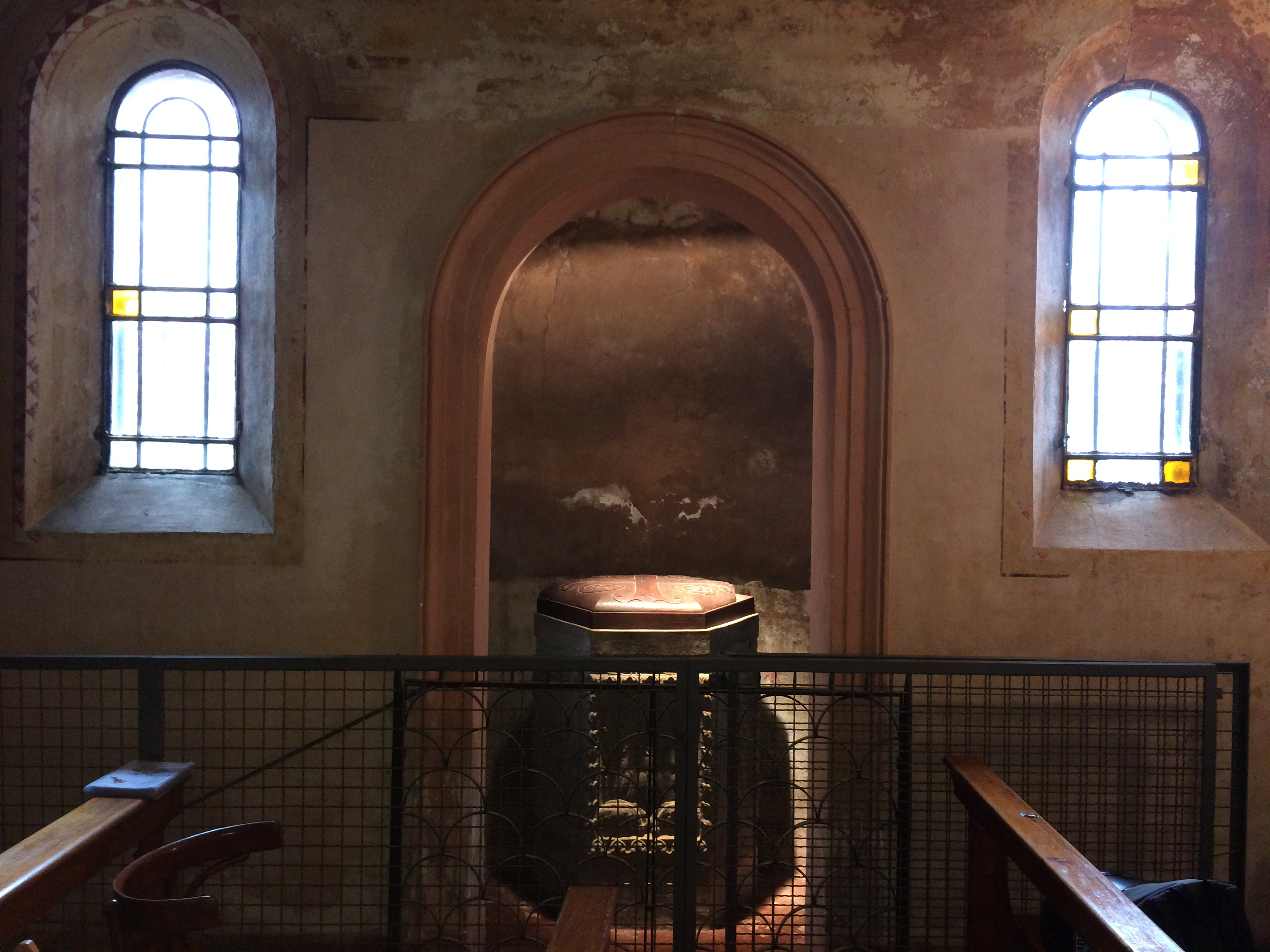 aa